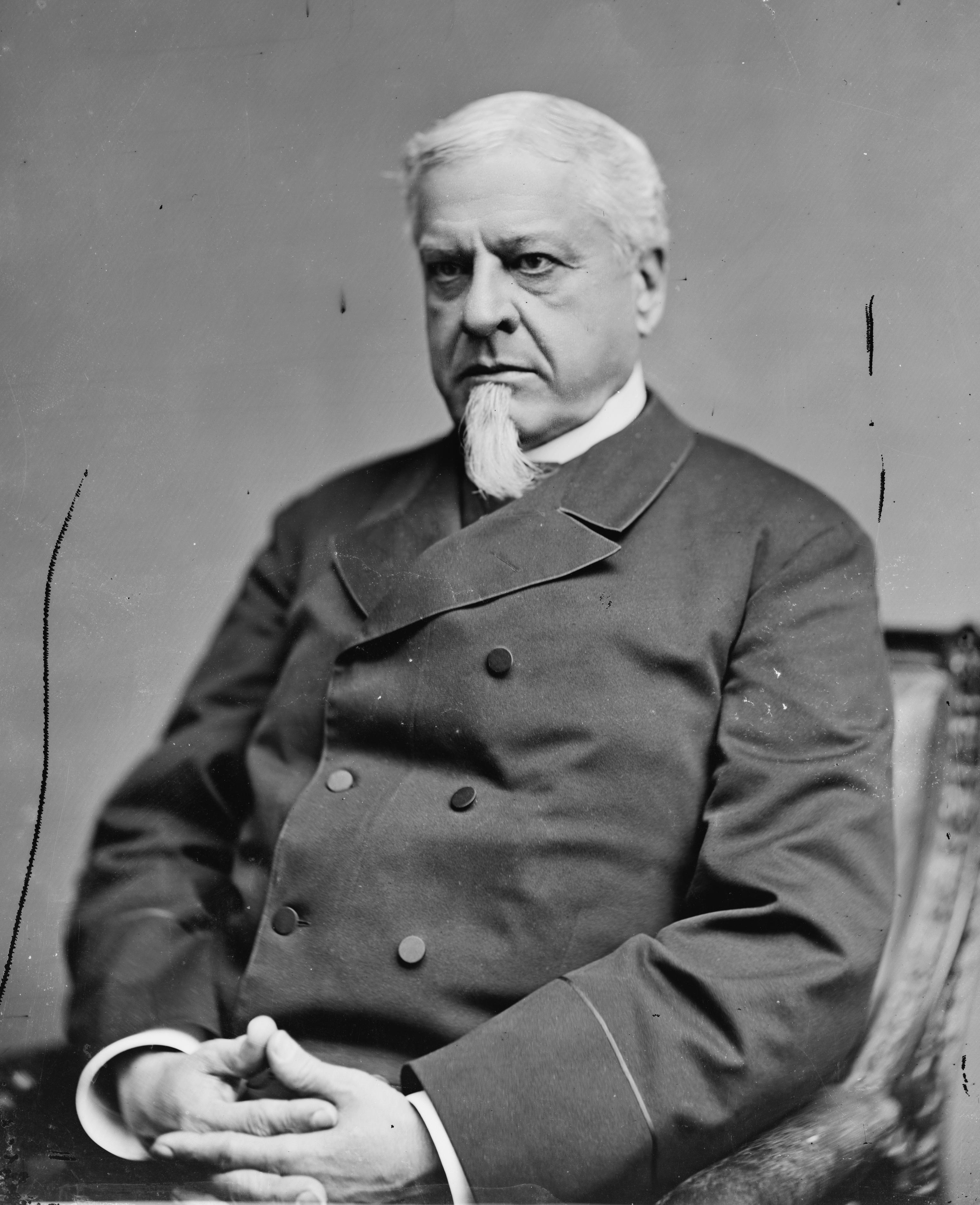 William H. Hunt. Library of Congress description: "Hunt, Hon. Wm. H. Ex Secty of Navy".